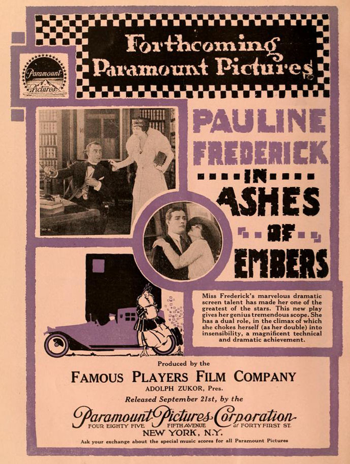 Advertisement in Moving Picture World for the American drama film Ashes of Embers (1916).